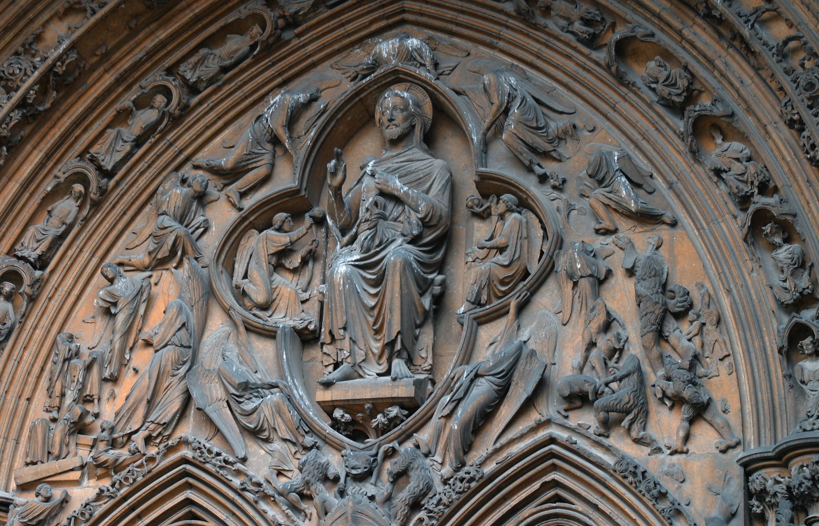 Tympanum at Lincoln Cathedral, Lincolnshire, England, showing Christ in Majesty surrounded by angels